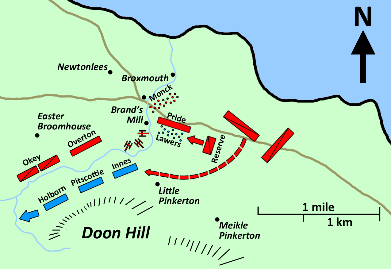 The Battle of Dunbar took place during the War of the Three Kingdoms, in what is commonly referred to as the "Third English Civil War". This map depicts the general layout of the two armies at 0730. The Scottish army is labelled in blue, while the English army is in red.